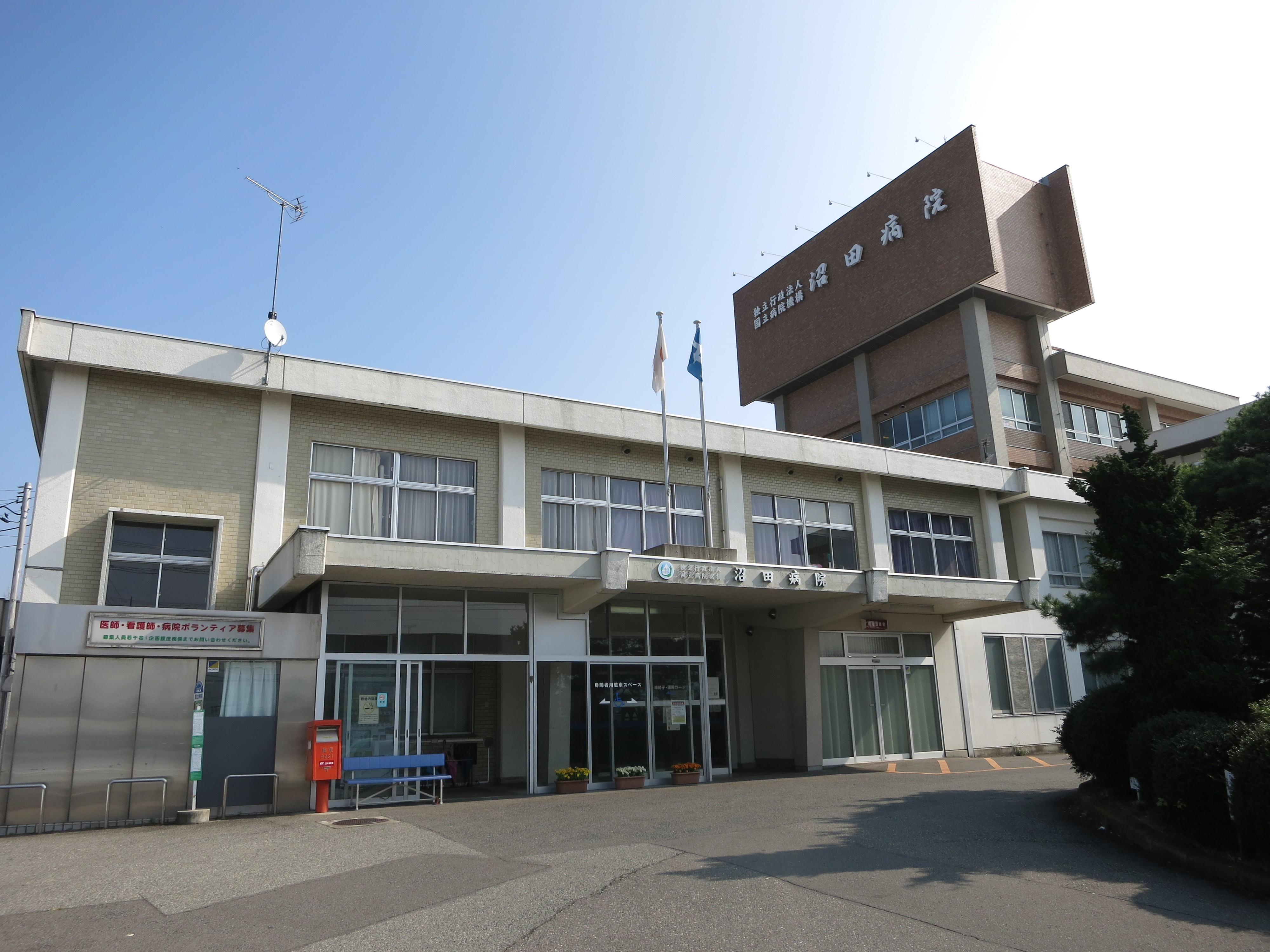 National Hospital Organization Numata National Hospital